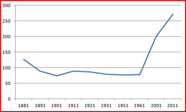 Line Graph describing population change of Aston Eyre over time